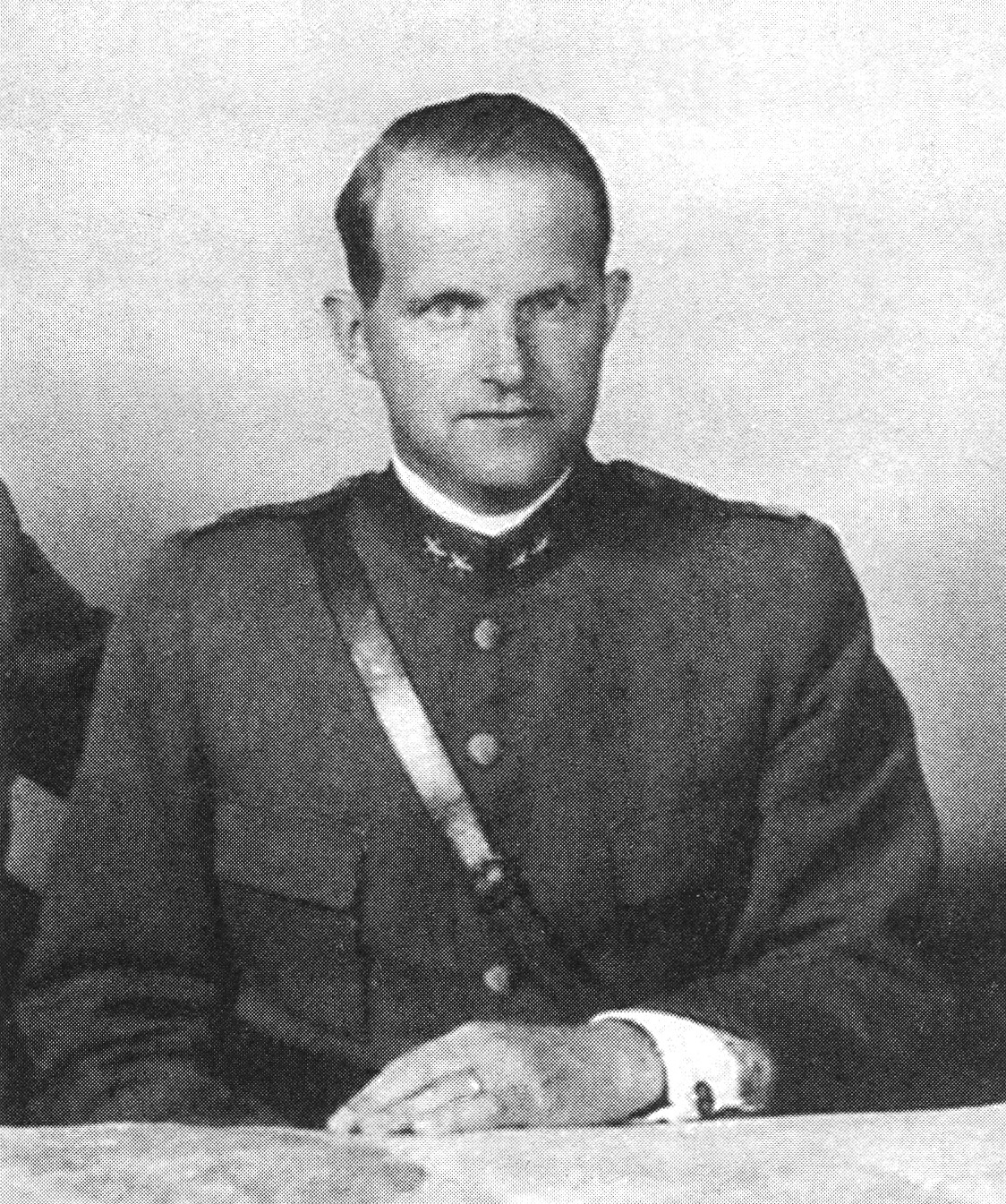 Stig Roth, chief of the group for Western Sweden, the M-group, of the Swedish secret intelligence agency C-byrån.